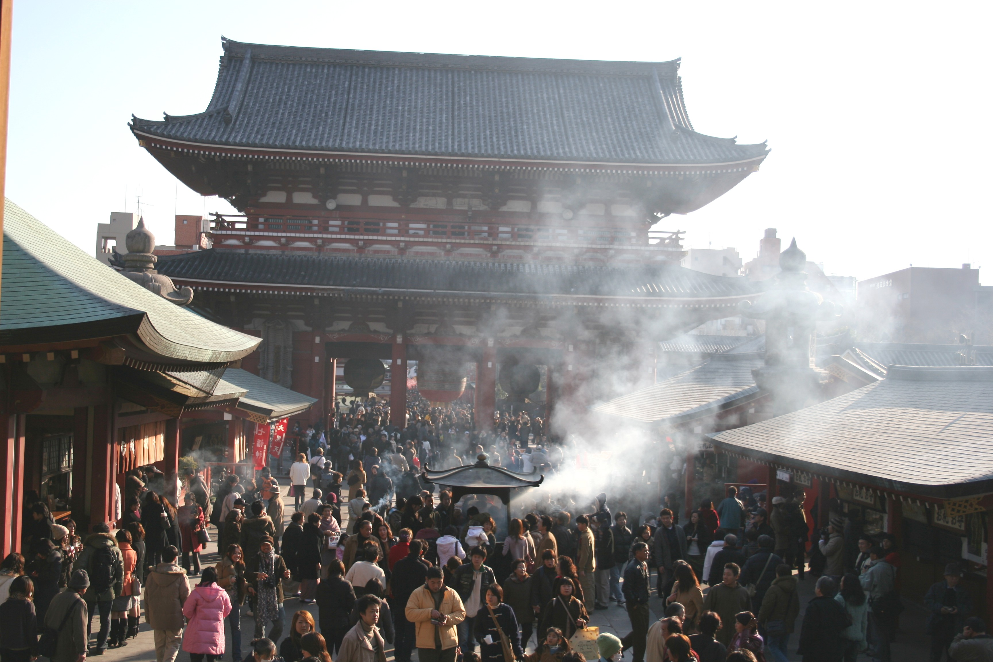 View from the main hall of Sensō-ji temple in Tokyo towards the square and Hozomon gate. Taken by myself, Eckhard Pecher, on January 29, 2006. Mention of my name is not necessary within the Wikis.